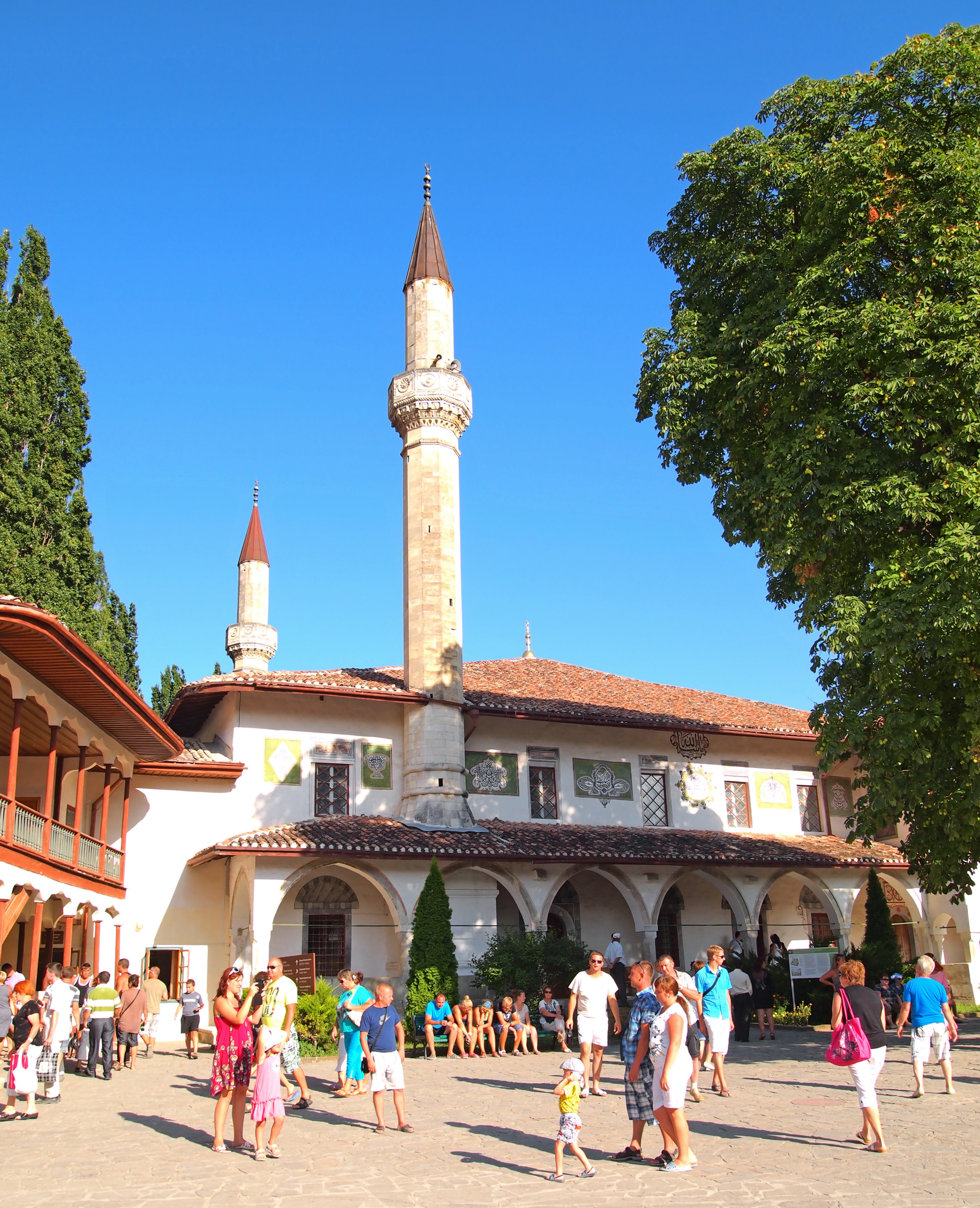 Mosque near the palace of Bakhchisarai. This photograph was taken with an Olympus E-PL1